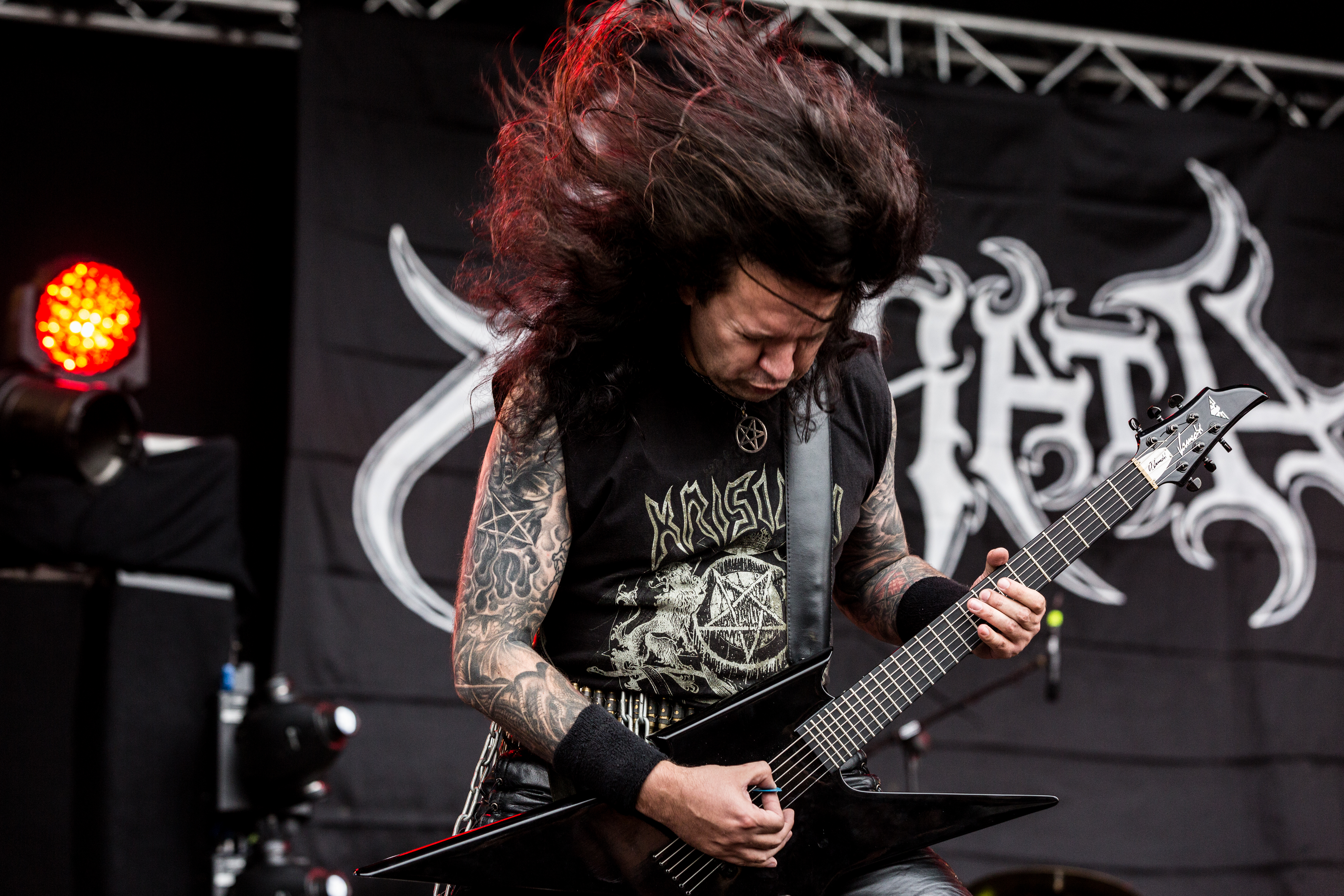 The Polish death/black metal band Azarath at the Party.San Metal Open Air 2016 in Obermehler-Schlotheim/Germany.